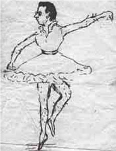 Maxime Litvinov, cartoon